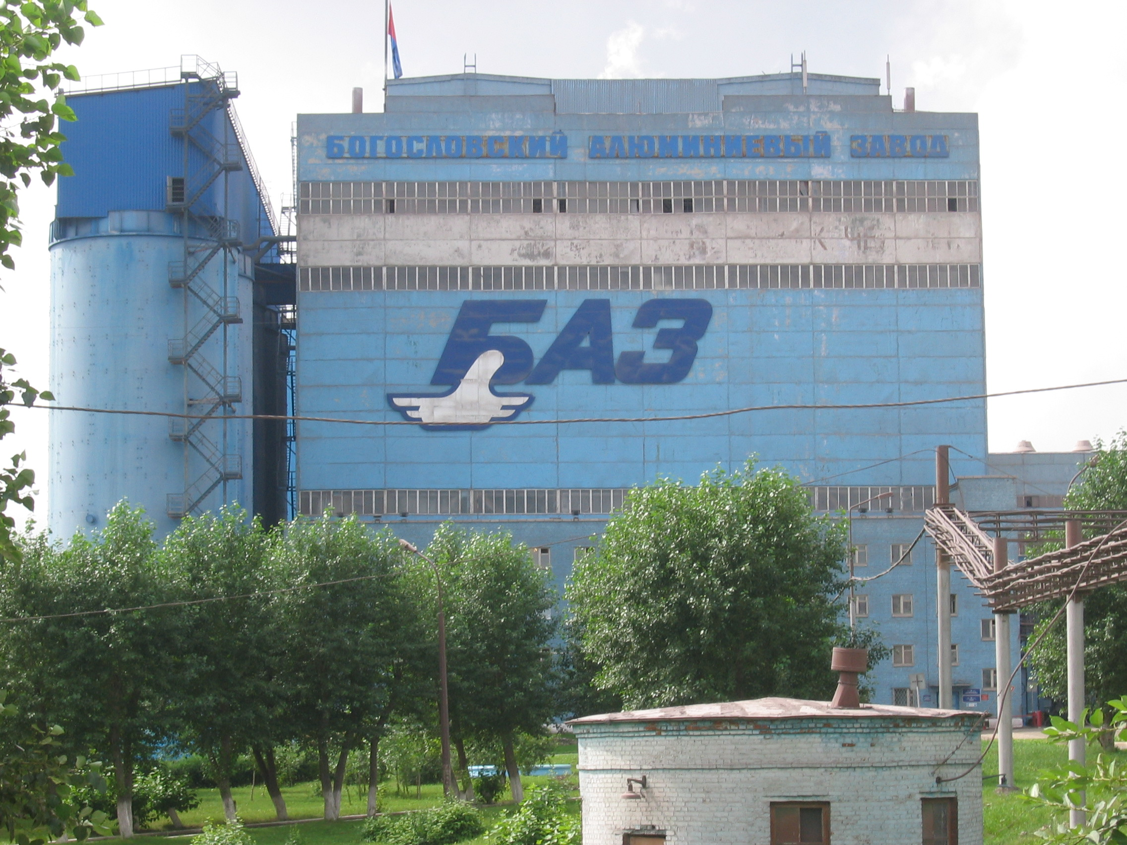 Bogoslovsky Aluminium Plant